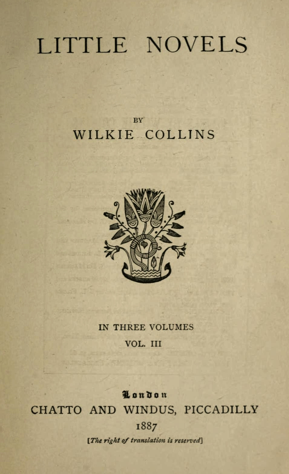 First edition in book form of the collection "Little Novels" by Wilkie Collins - Vol 3 contained "Who Killed Zebedee?"